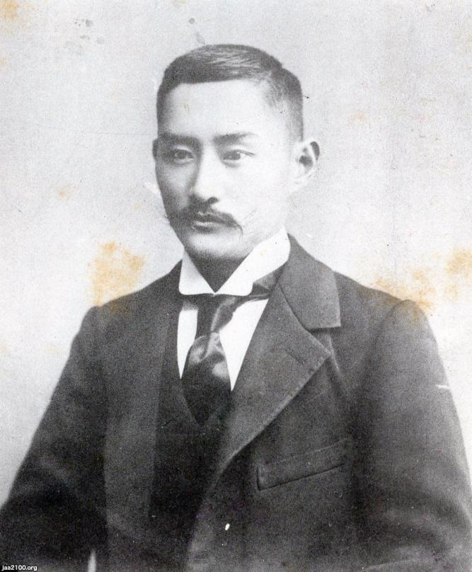 Japanese entrepreneur, Morishita Hiroshi (1869-1943)